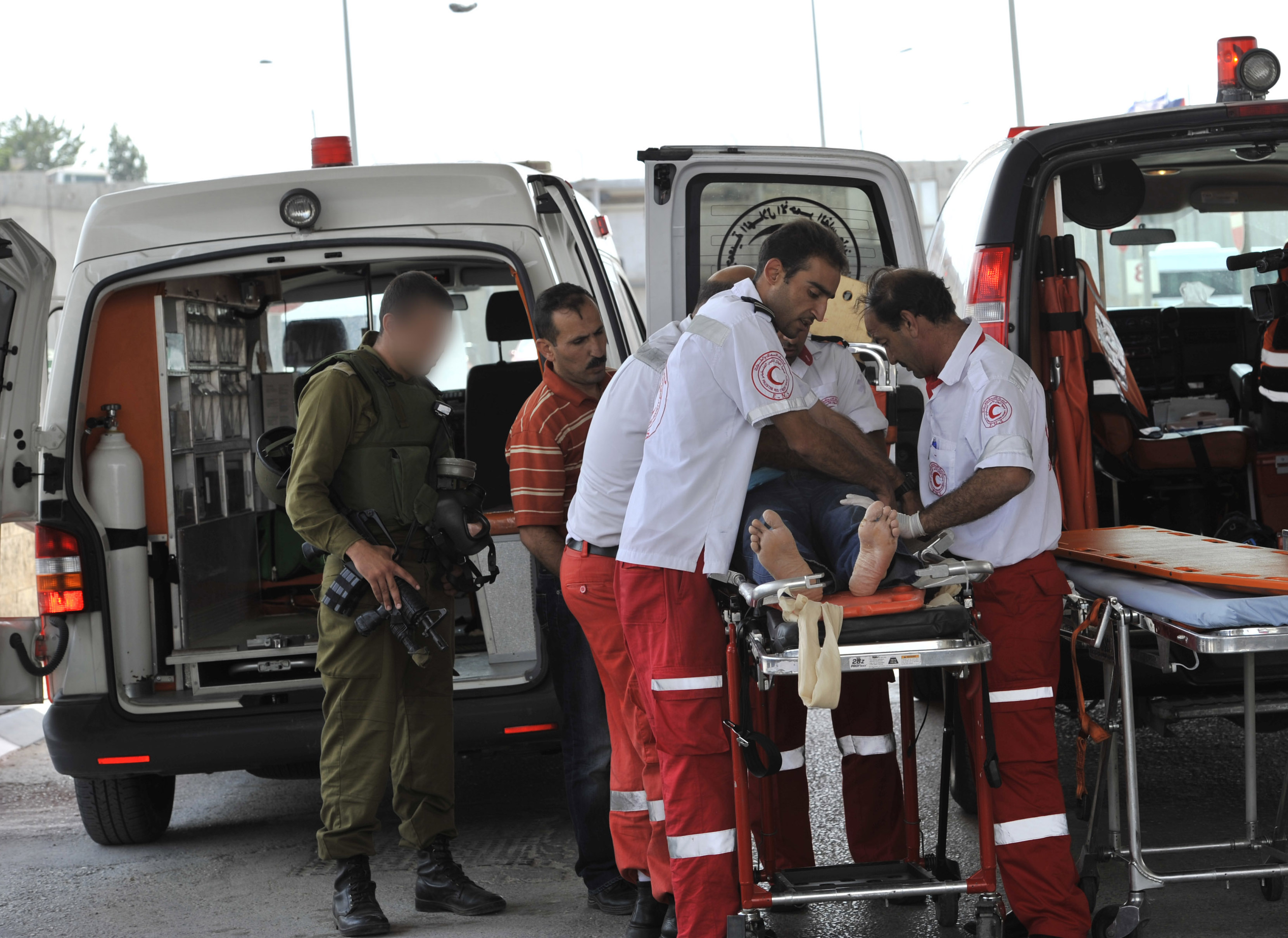 September 23, 2011 This morning, a Palestinian was injured in a car accident in Ramallah. Pictured above is the Palestinian transferred through the Qalandiya crossing. Photo by the IDF Spokesperson Unit.